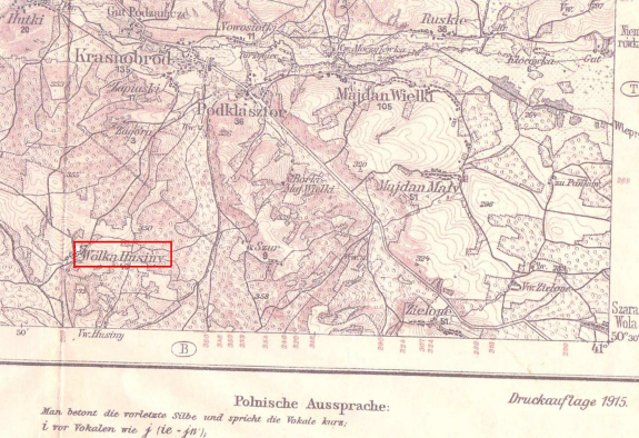 Wólka Husińska i Husiny w 1915 roku